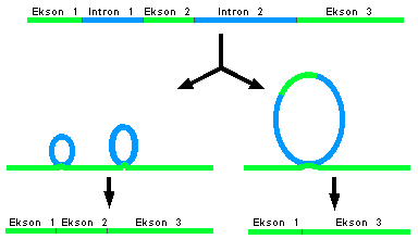 Alternative splicing, Turkish text.